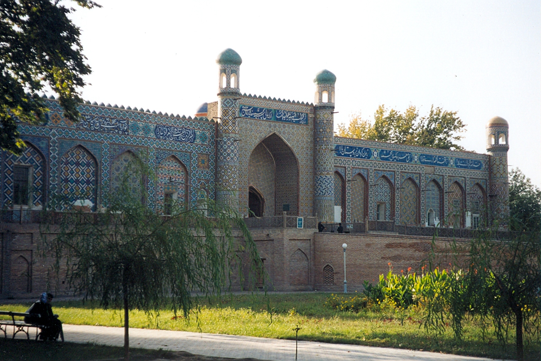 Khan's Palace, Kokand, today's Uzbekistan. The inscriptions on the building are in Persian, the lingua franca of West and Central Asia at the time.